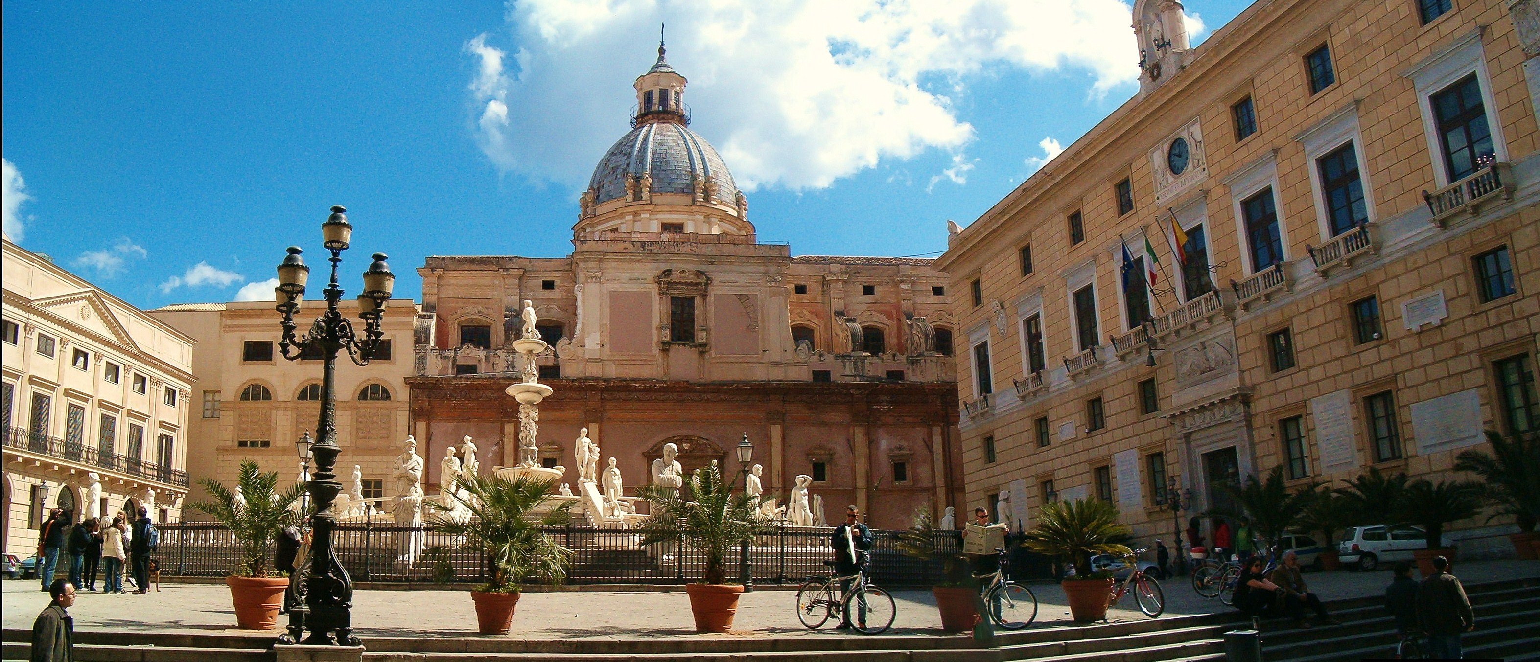 View of the Pretoria square (palermo)